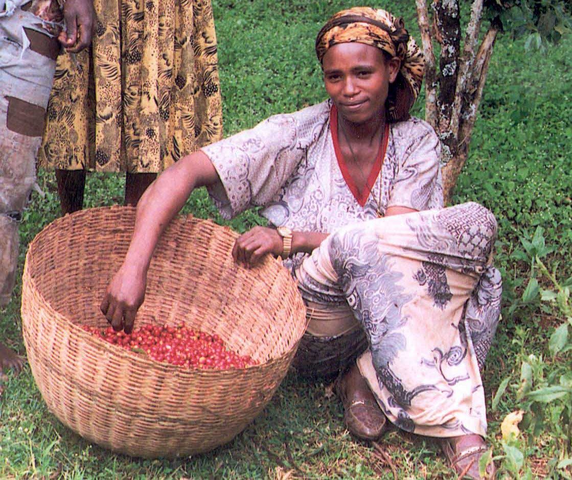 Female coffee farmer in Ethiopia